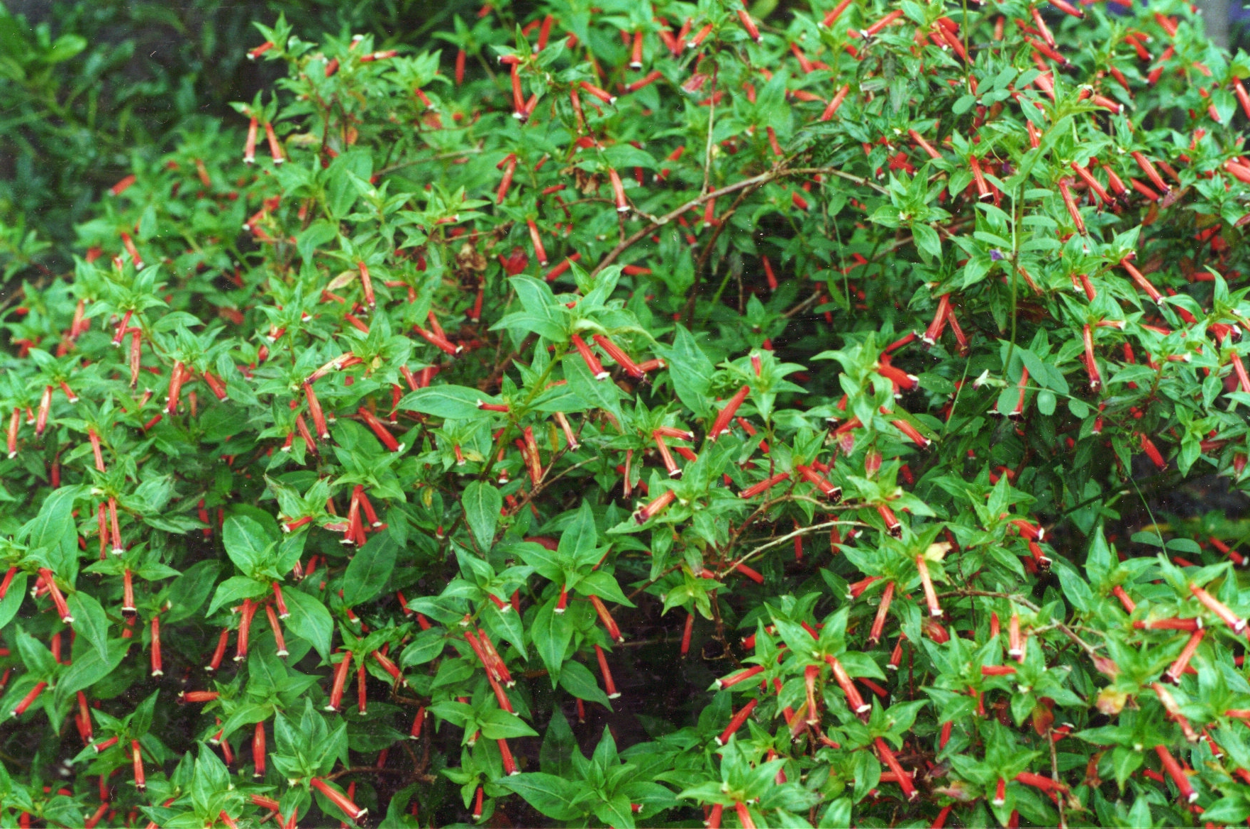 Cuphea ignea